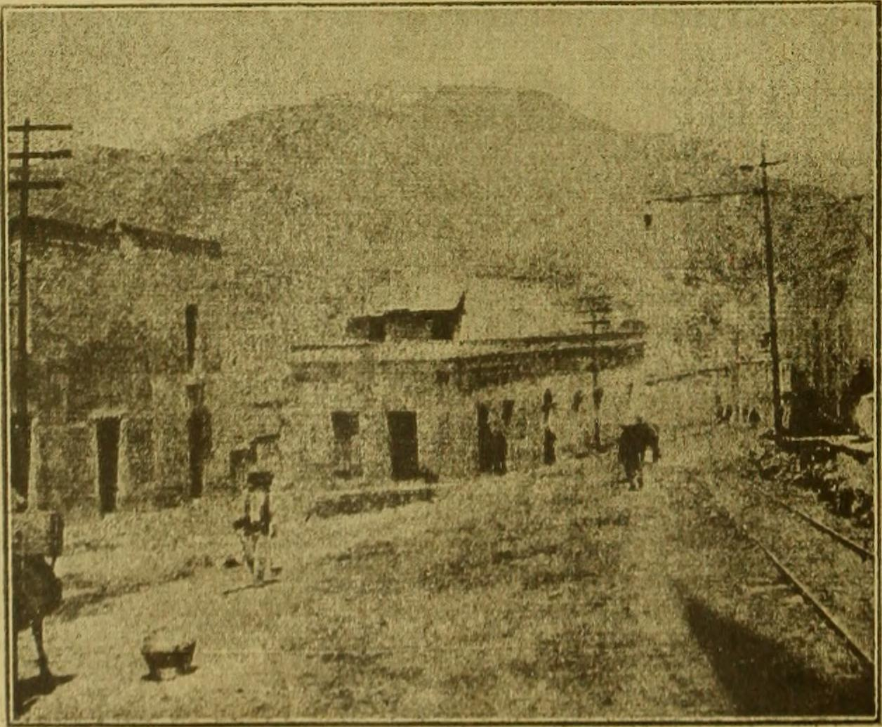 Identifier: mexicanminingjou1920unse Title: The Mexican mining journal Year: 1905 (1900s) Authors: Subjects: Mines and mineral resources Publisher: Mexico City : Mexican Pub. Co. S.A. View Book Page: Book Viewer About This Book: Catalog Entry View All Images: All Images From Book Click here to view book online to see this illustration in context in a browseable online version of this book. Text Appearing Before Image: the Hacienda of Regla were8 blast furnaces for smelting rich ores, and in SanMiguel, Velasco and Sanchez 36 reverberatory furnacesfor drying and roasting the ores, preparatory toamalgamation in barrels. After 1855 the Haciendaof Loreto was erected, which, situated in the midstof the Pachuca mines, was gradually increased so thatit treated 100,000 cargas of 300 lb. each of ore perannum. (15,000 short tons.) The following is a brief list of the Cornish steampumps in operation in 1860: Real del Monte district Dolores shaft, 75-in cylinder;Acosta shaft, 54-in. cylinder; San Patricio shaft, 30-in.cylinder. Pachuca district—San Juan shaft, 85-in. cylinder(in use in 1908); San Nicolas shaft, 30-in. cylinder;Corteza shaft, 30-in. cylinder; Rosario shaft, 18-in.cylinder. There were in use eight rotary engines for hoisting,reduction works and shops. The reduction workscomprised the Loreto, Guerrero, Aviadero, Sanchez,Velasco, Peñafiel, San Miguel, and Regla, all of whichused 29 water wheels. Text Appearing After Image: Street in Pachuca.